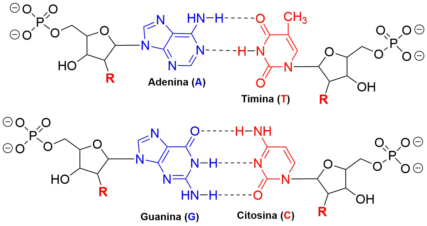 Ligações de hidrogênio envolvendo os grupos amino e carbonila